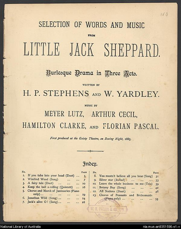 1886 cover of sheet music from Little Jack Sheppard.